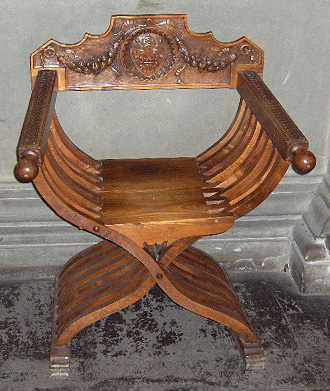 Faldstool in the Salone dei Cinquecento, Palazzo Vecchio, Florence, Italy